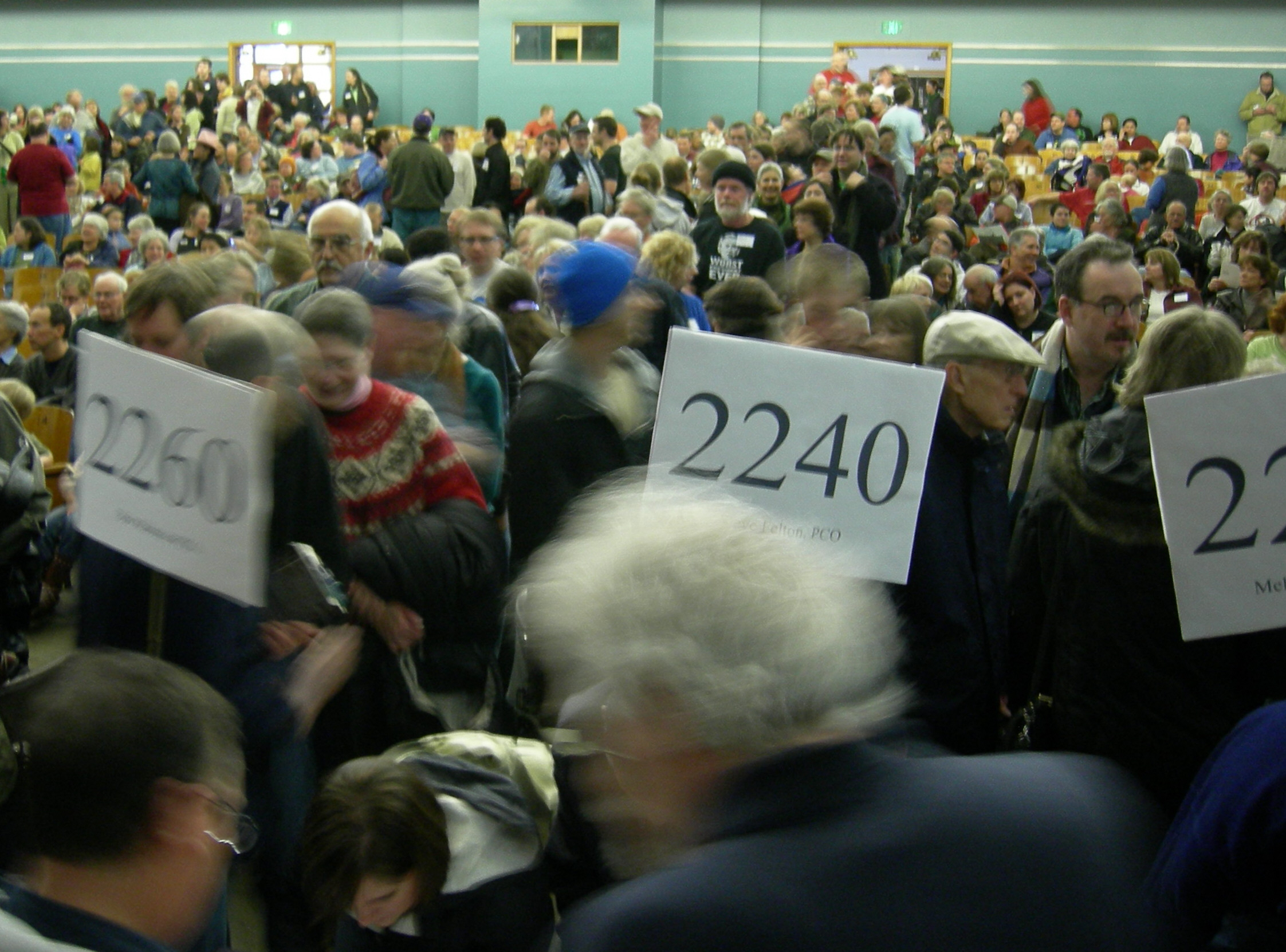 Part of the 2008 Washington State Democratic Party Caucus. This is at the Eckstein Middle School, Seattle, Washington. The precincts meeting there were part of the 46th Legislative District. Technically, each precinct caucuses separately, but here the school auditorium is being used to check in attendees from multiple precincts.